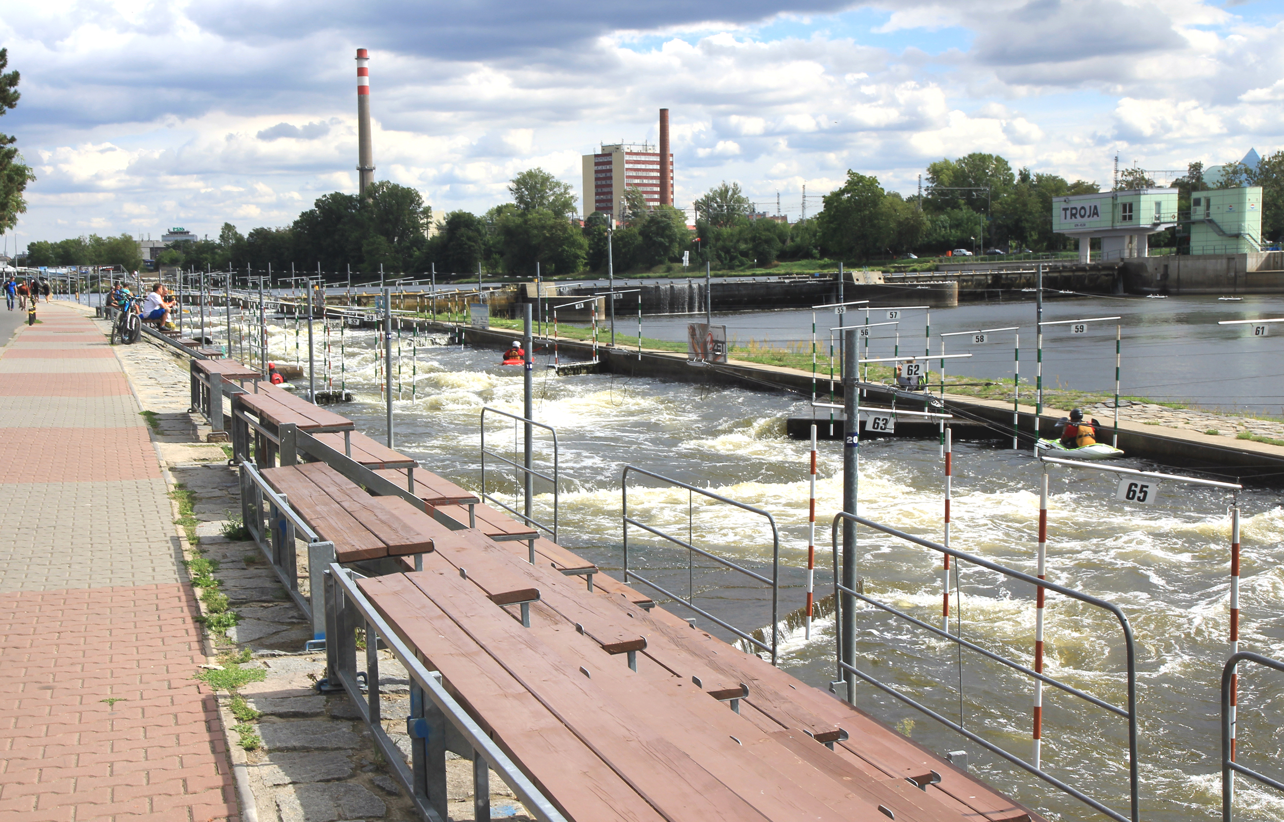 Sport training canal and a weir on the Vltava river in Prague - Troja, Czech Republic